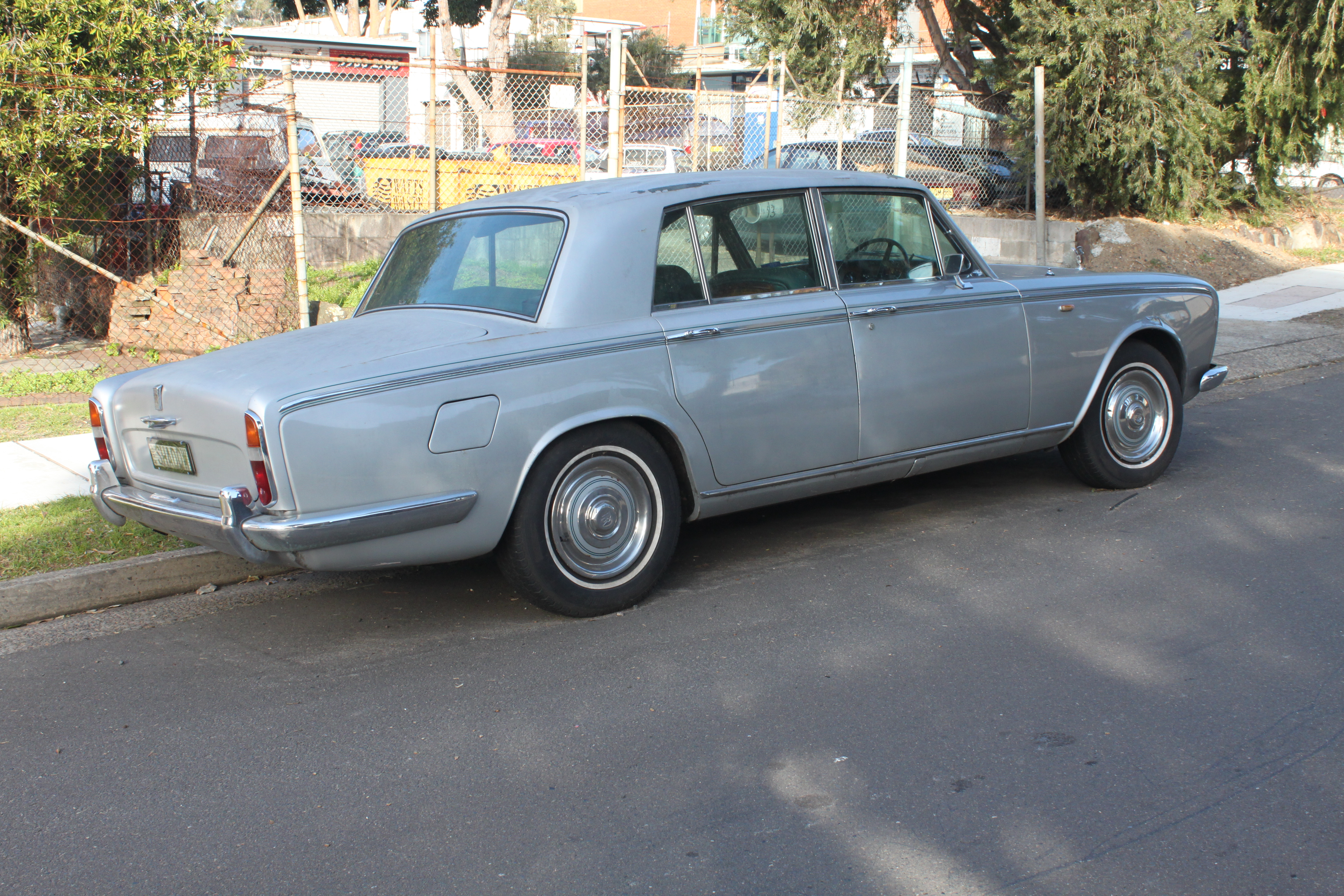 1967 Rolls Royce Silver Shadow